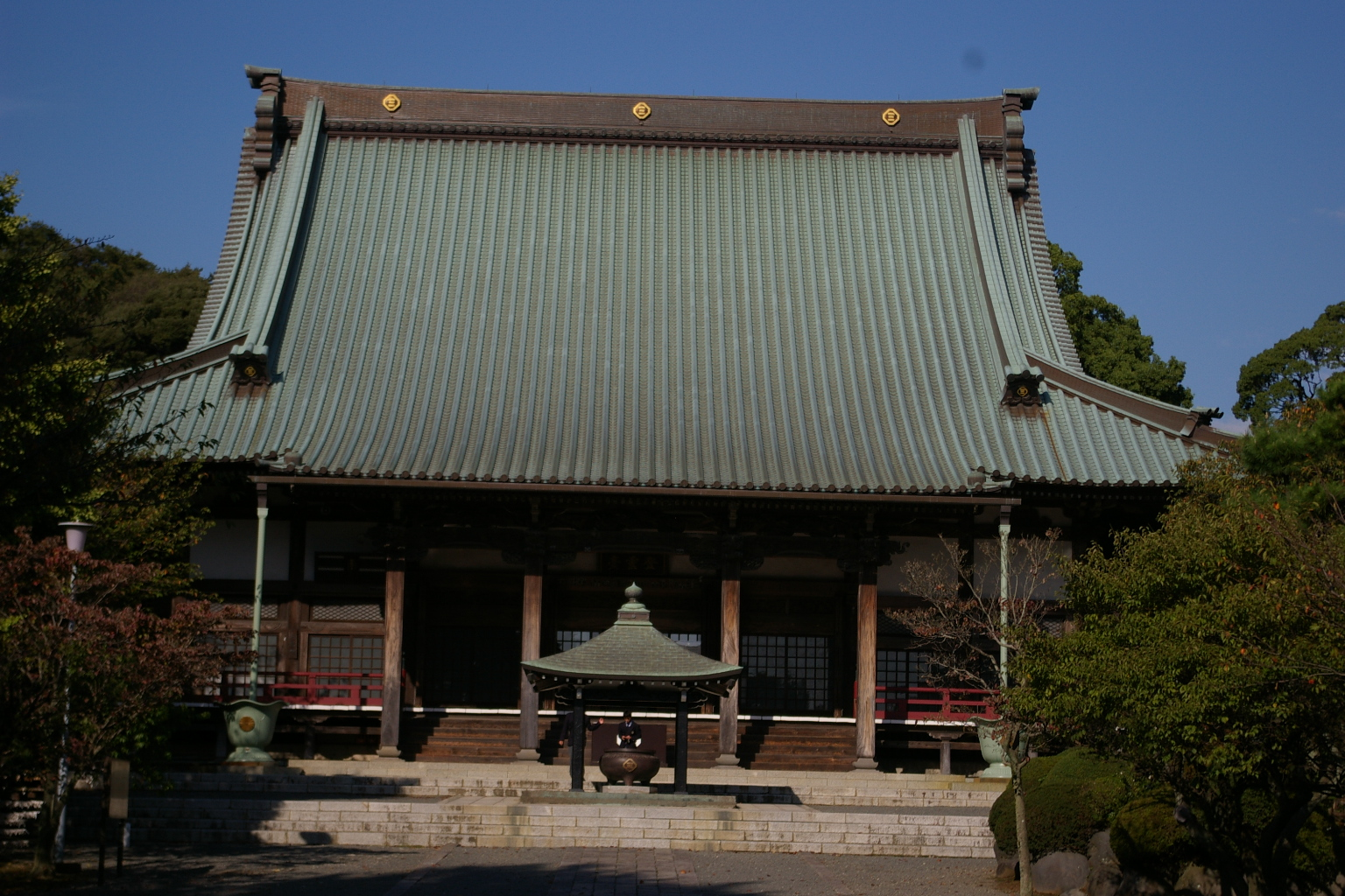 Main Building of Shoujoukouji Temple,Fujisawa,Japan.